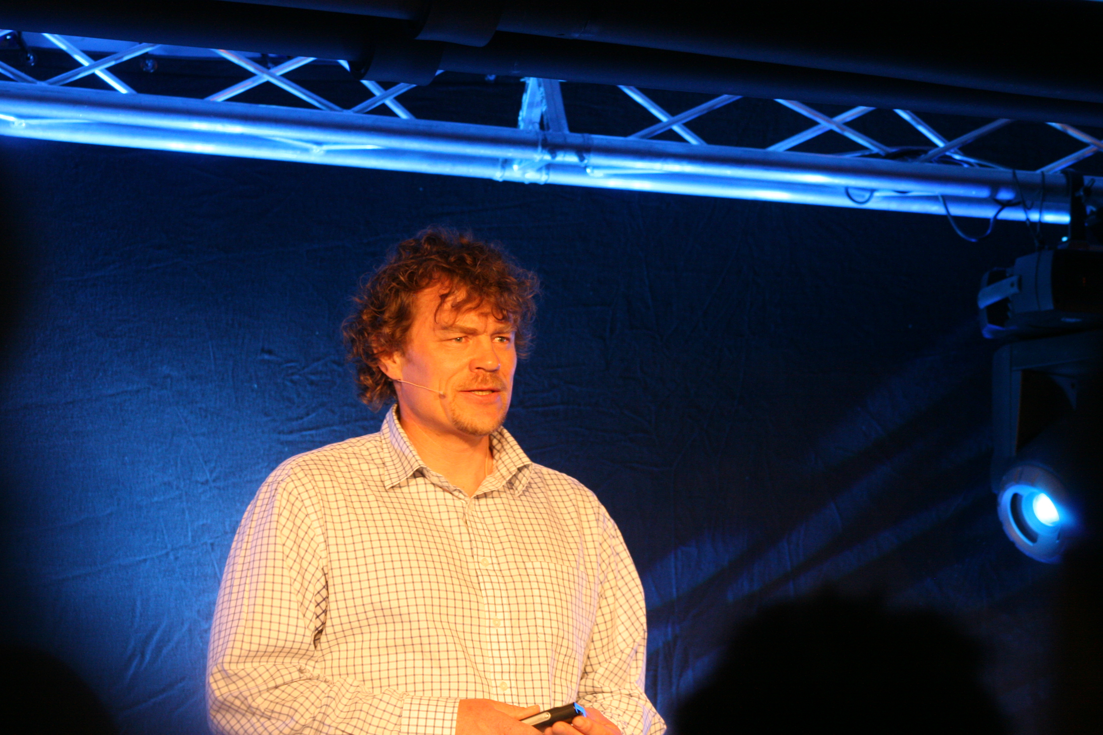 Lars Monsen at IT-galla 2010